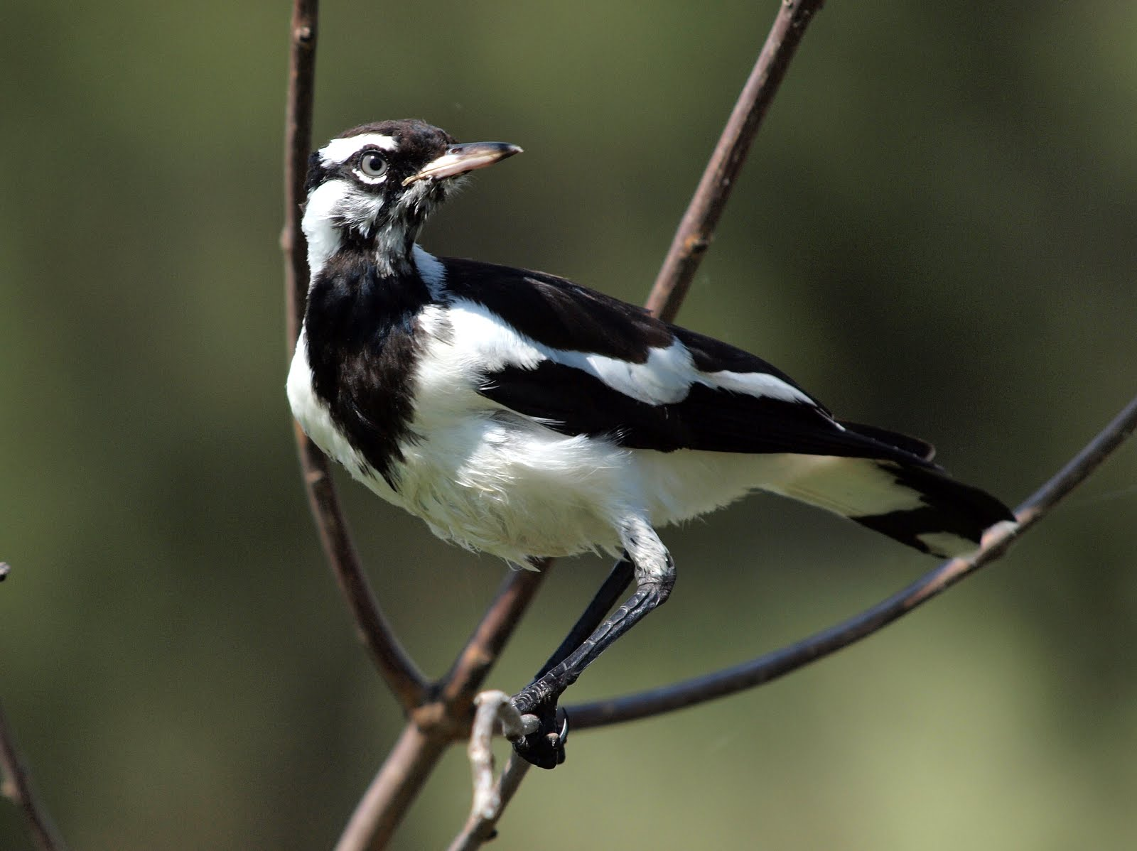 A male Magpie-lark in Canberra, Australia.